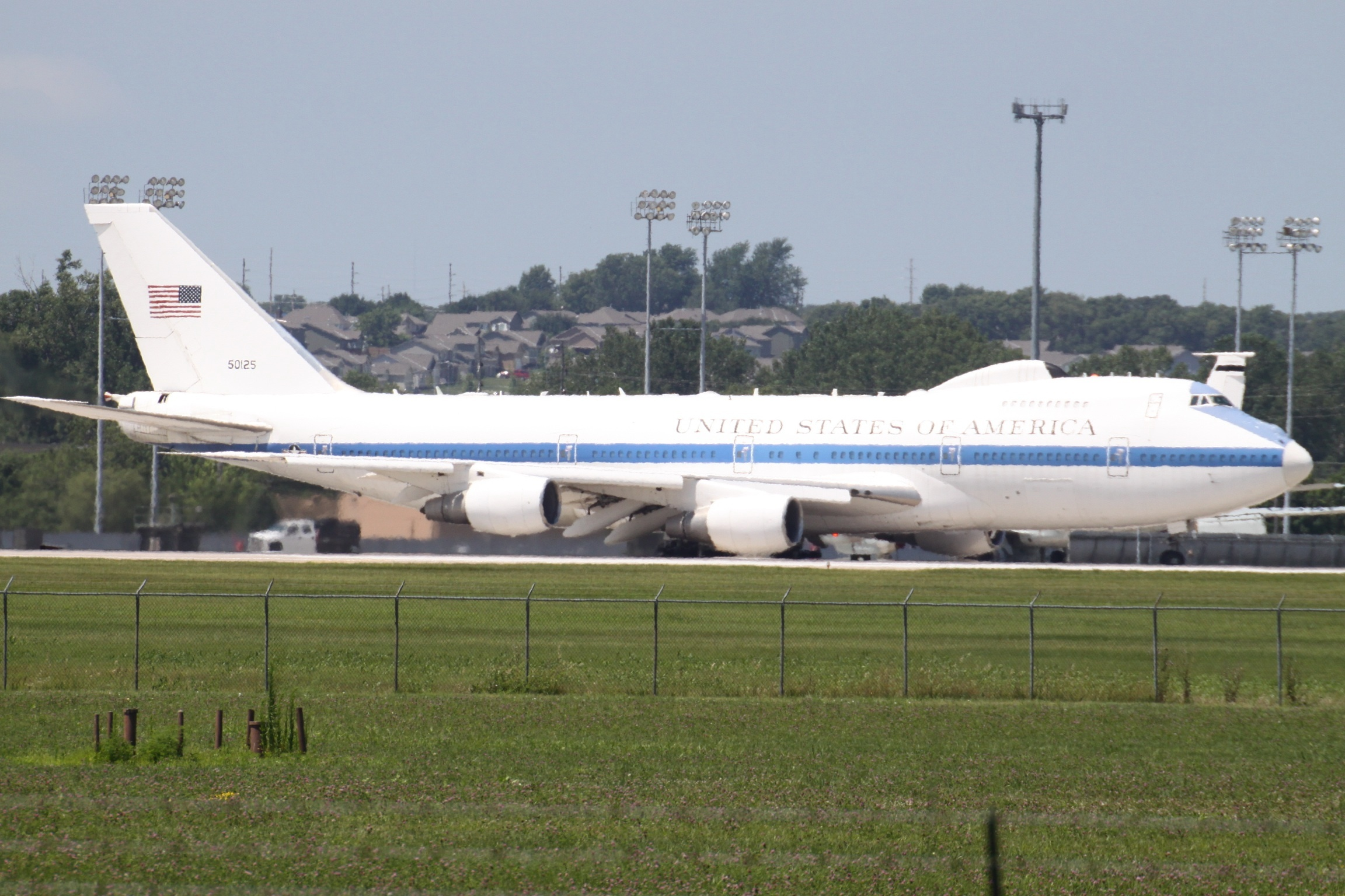 At Offutt Airforce Base